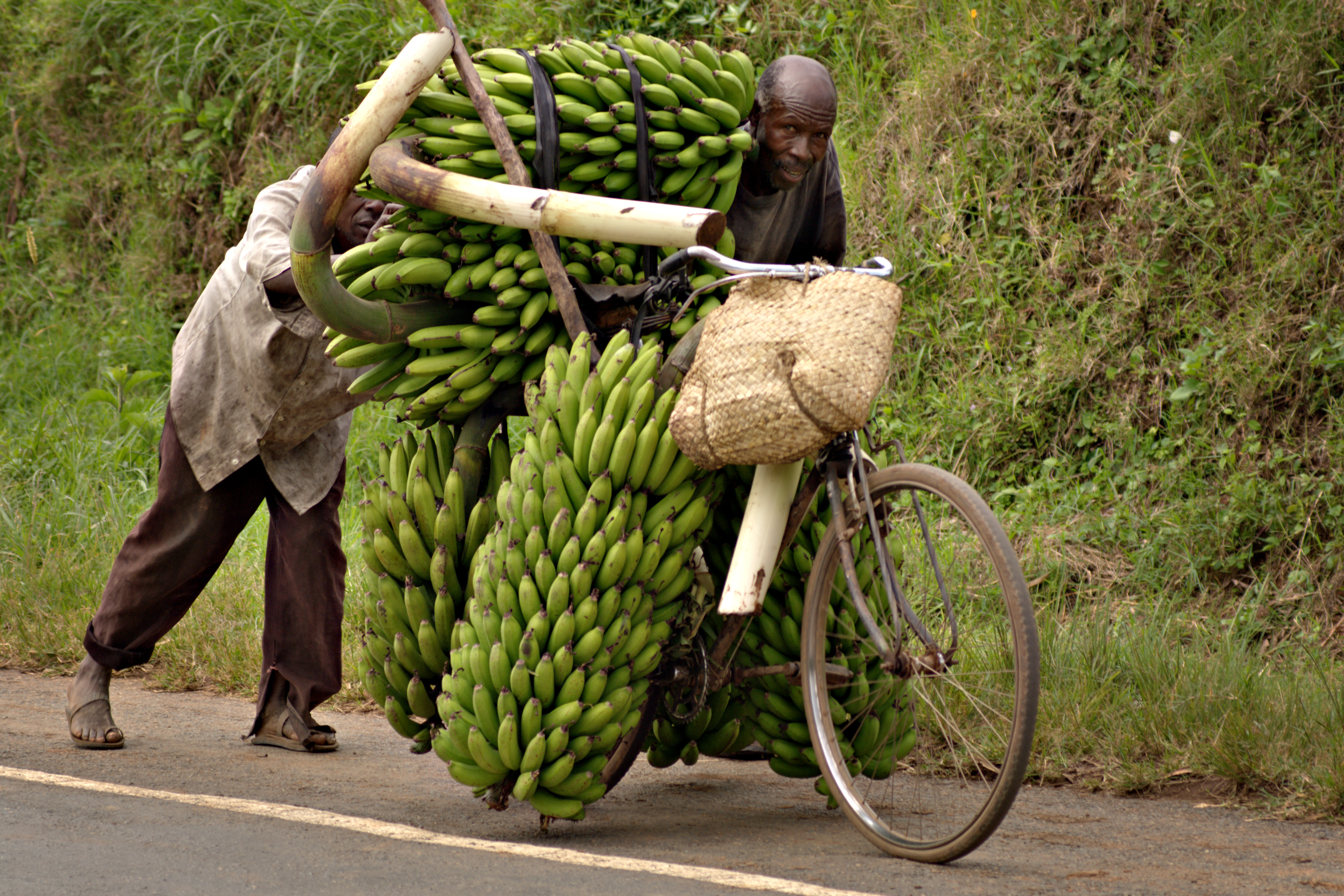 A banana laden bicycle in Uganda